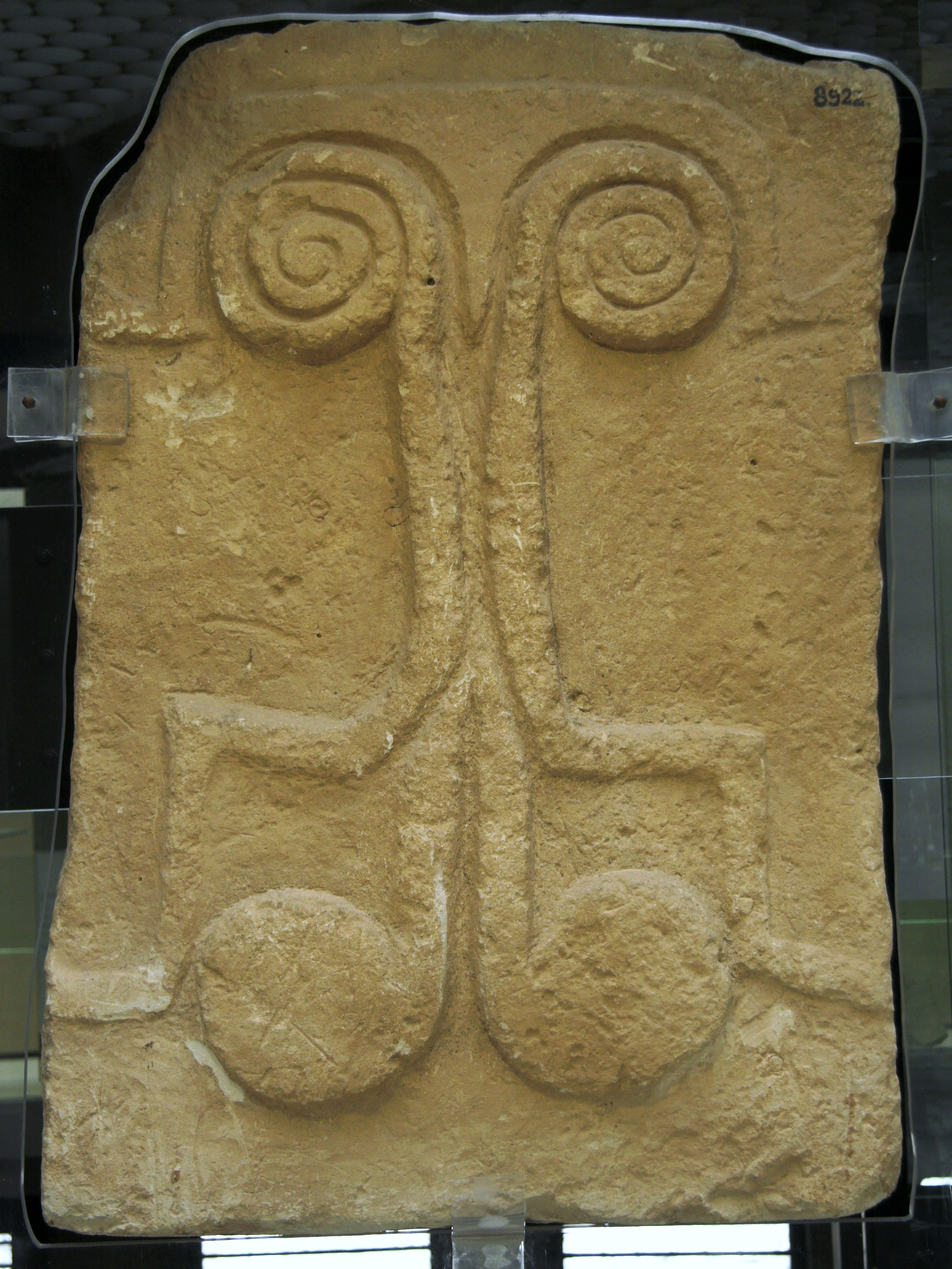 Relief on the tomb plate. Apparently schematically depicts sexual act. Castelluccio, grave 31, Sicilian early Bronze Age, 2200-1400 BC. Archaeological Museum of Syracuse, 8922.